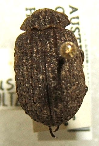 Omorgus costatus adult taken by Shawn Hanrahan at the Texas A&M University Insect Collection in College Station, Texas. Cropped and slightly enhanced from Omorgus costatus sjh.jpg.